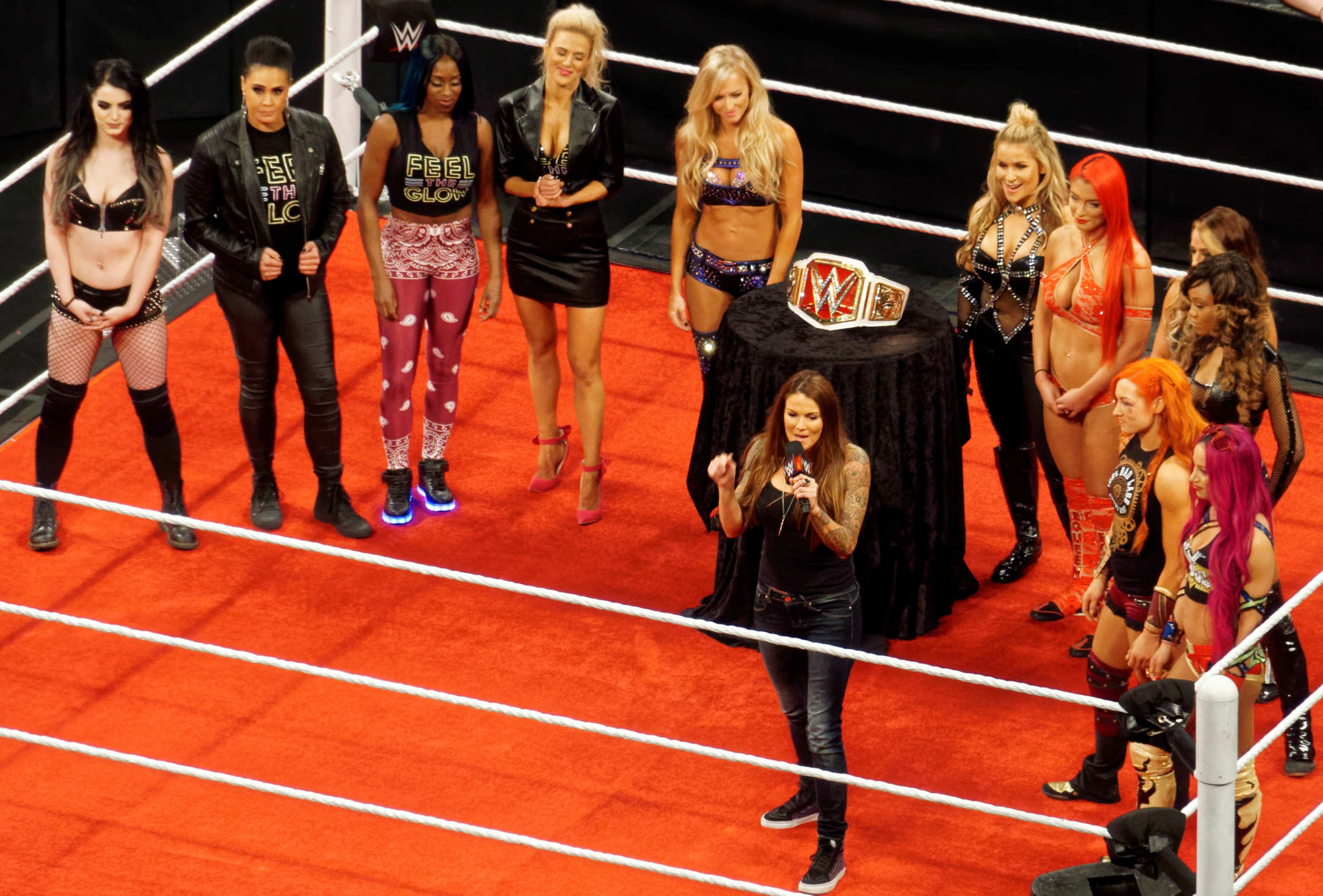 Lita hosting the presentation of the all-new WWE Women's Championship the night after WrestleMania on Raw in April 4, 2016.